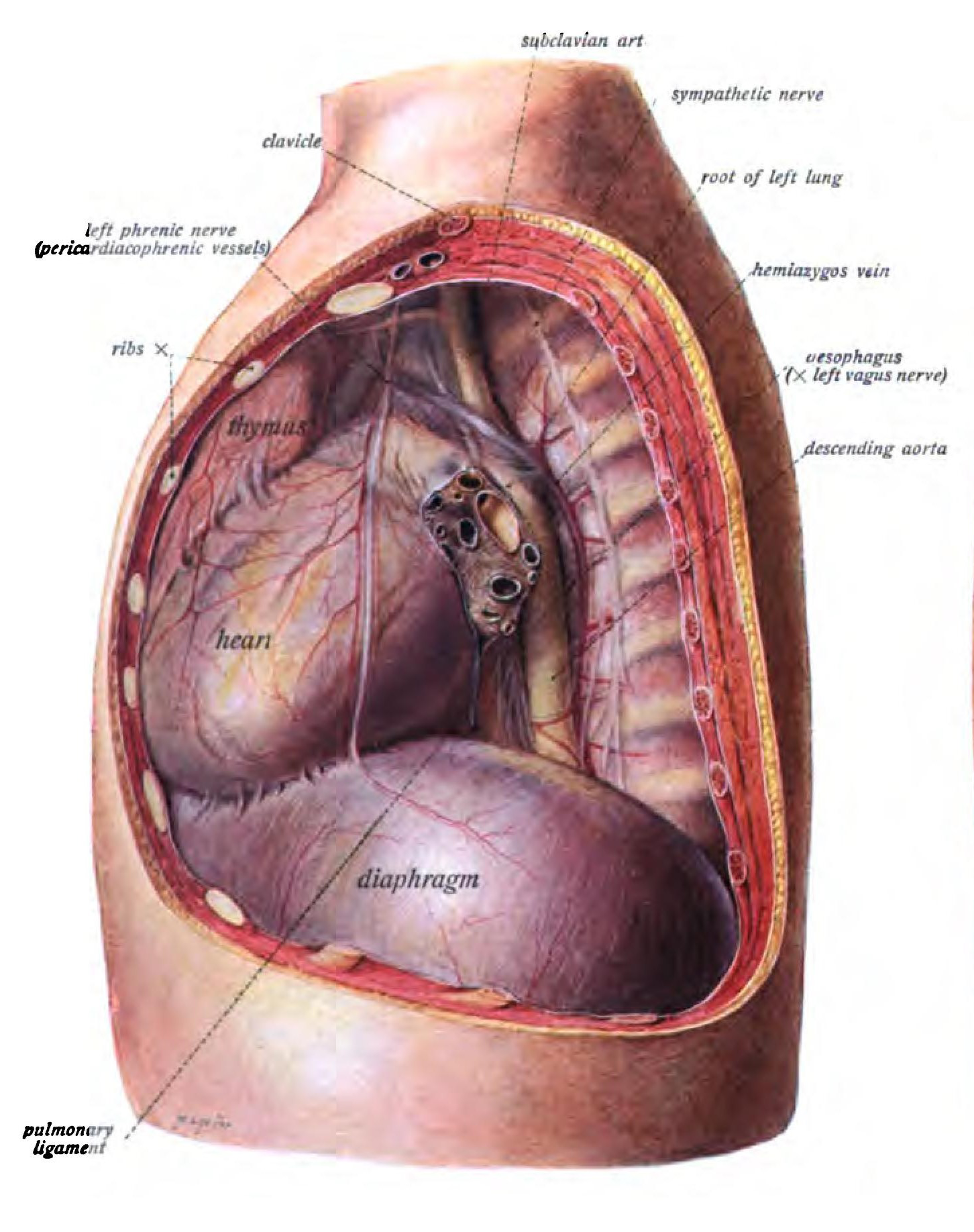 An anatomical illustration from the 1906 edition of Sobotta's Atlas and Text-book of Human Anatomy with English Terminology